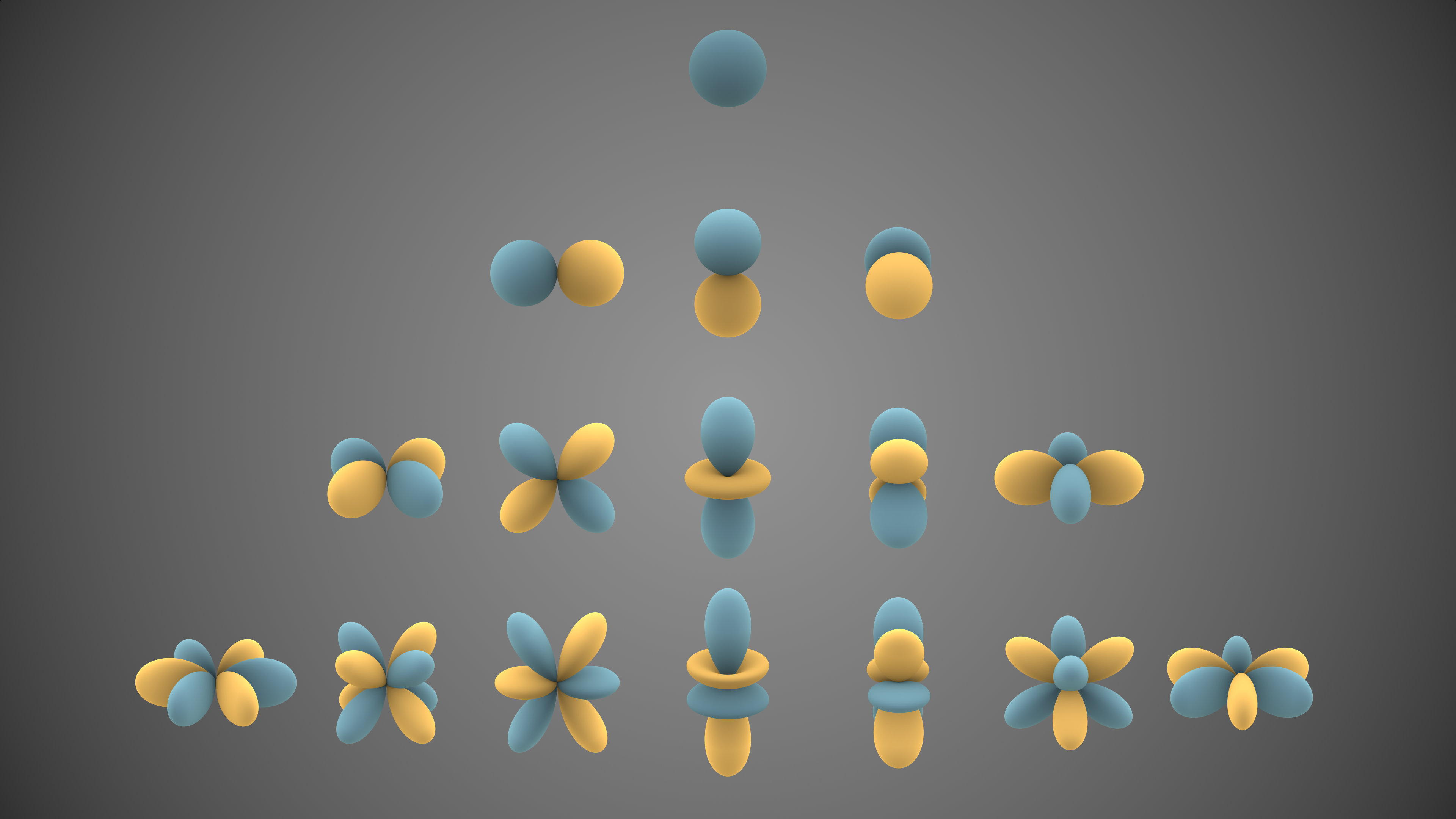 Visual representations of the first 4 bands of real spherical harmonic functions. Blue portions are regions where the function is positive, and yellow portions represent regions where it is negative.